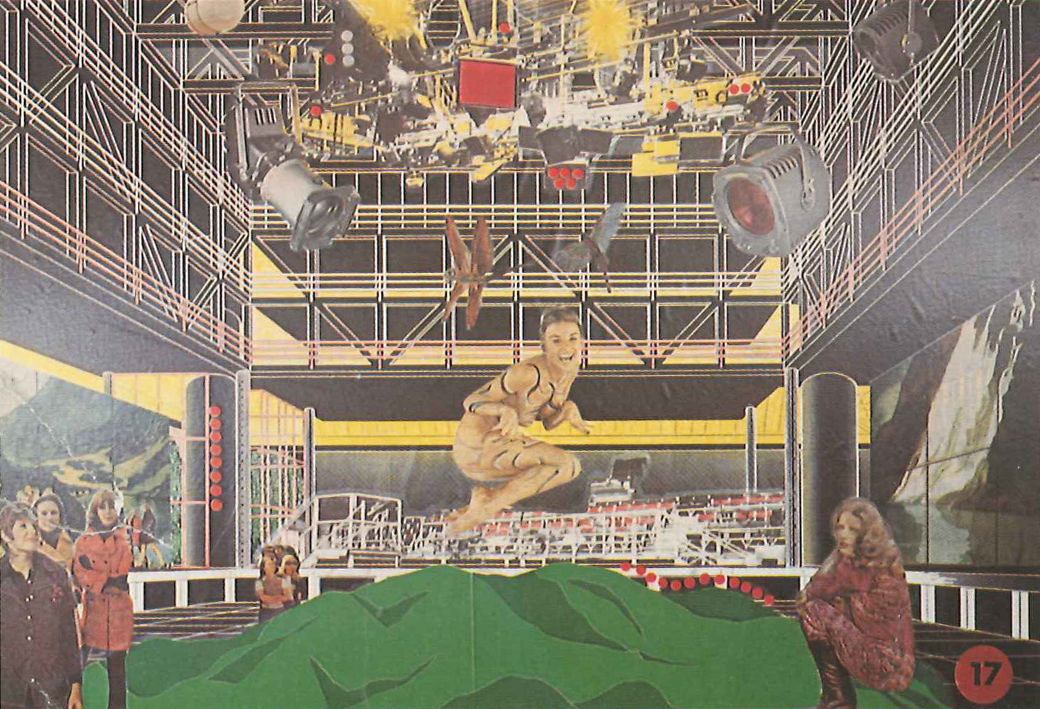 Project for the architecture competition for expanding the theatre building for Trøndelag Teater